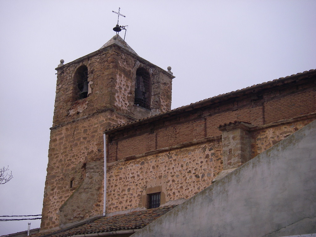 Partial view of Saint Martin's church in Sorzano (La Rioja, Spain)